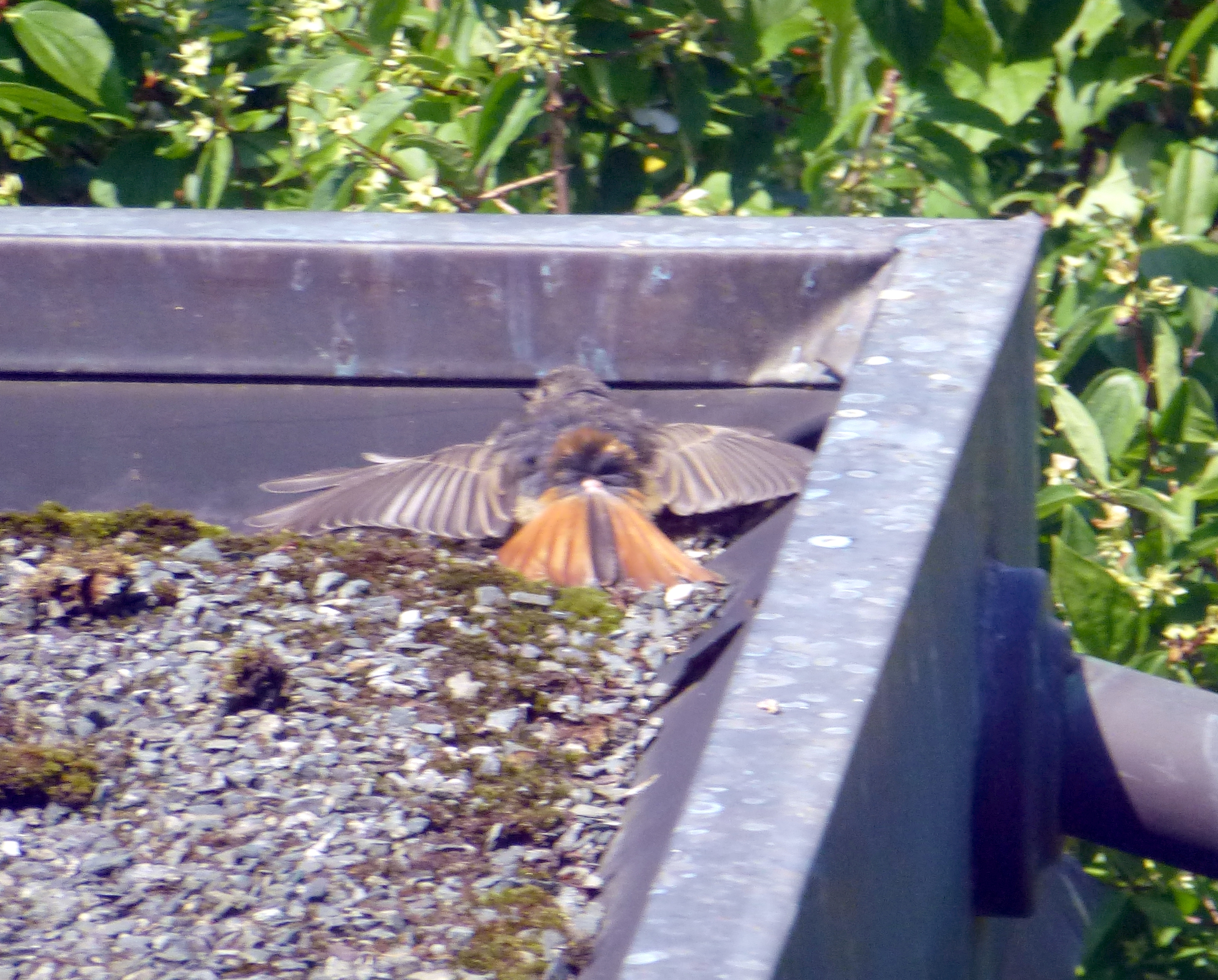 Redstart sunbathing or spring cleaning?